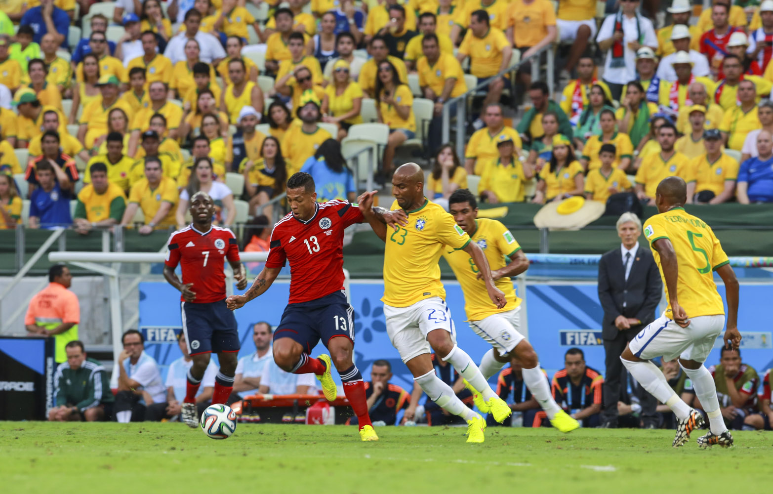 Brazil and Colombia match at the FIFA World Cup 2014-07-04